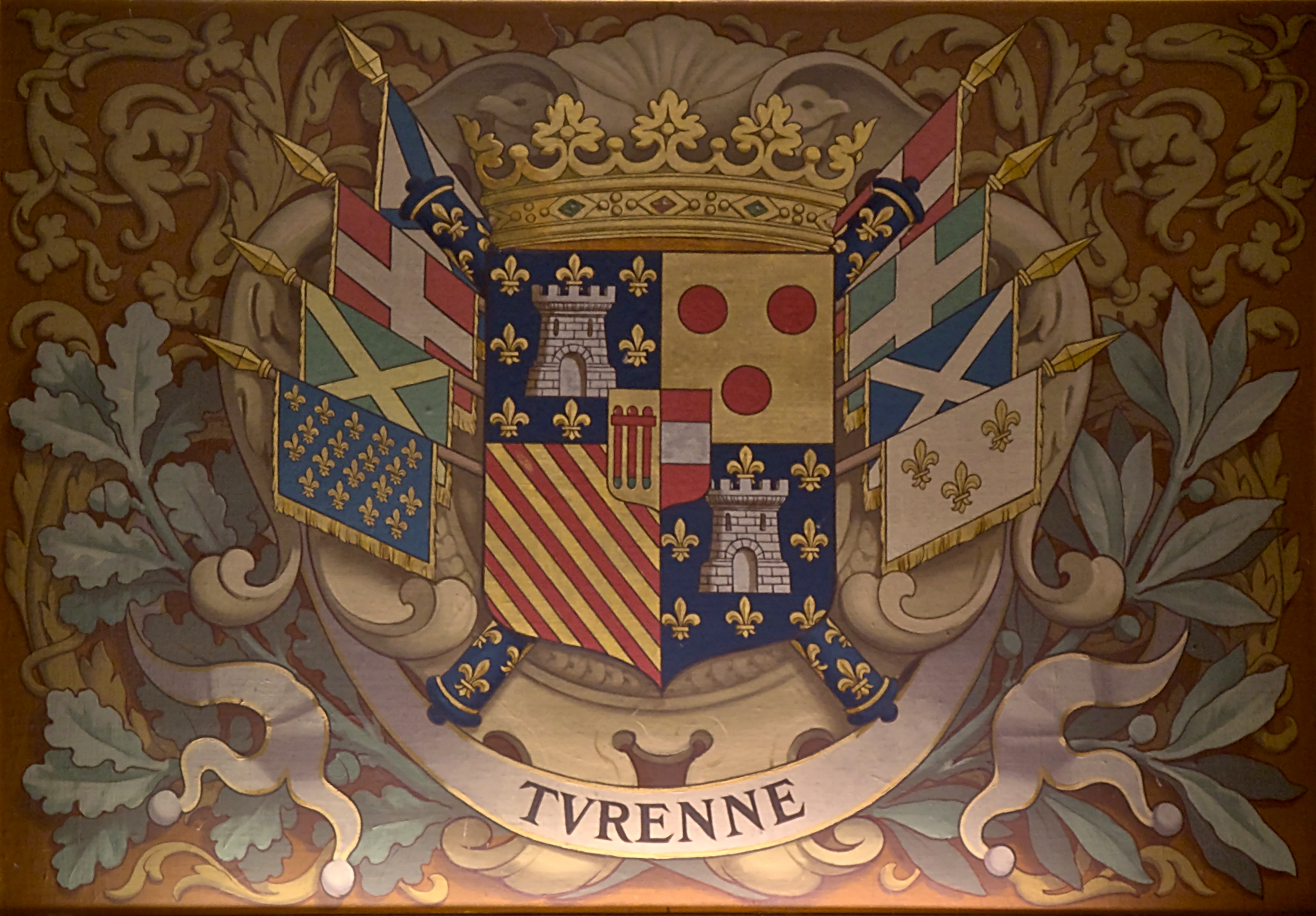 CoA of Turenne, ceiling of the library of the Château de Chantilly, France.